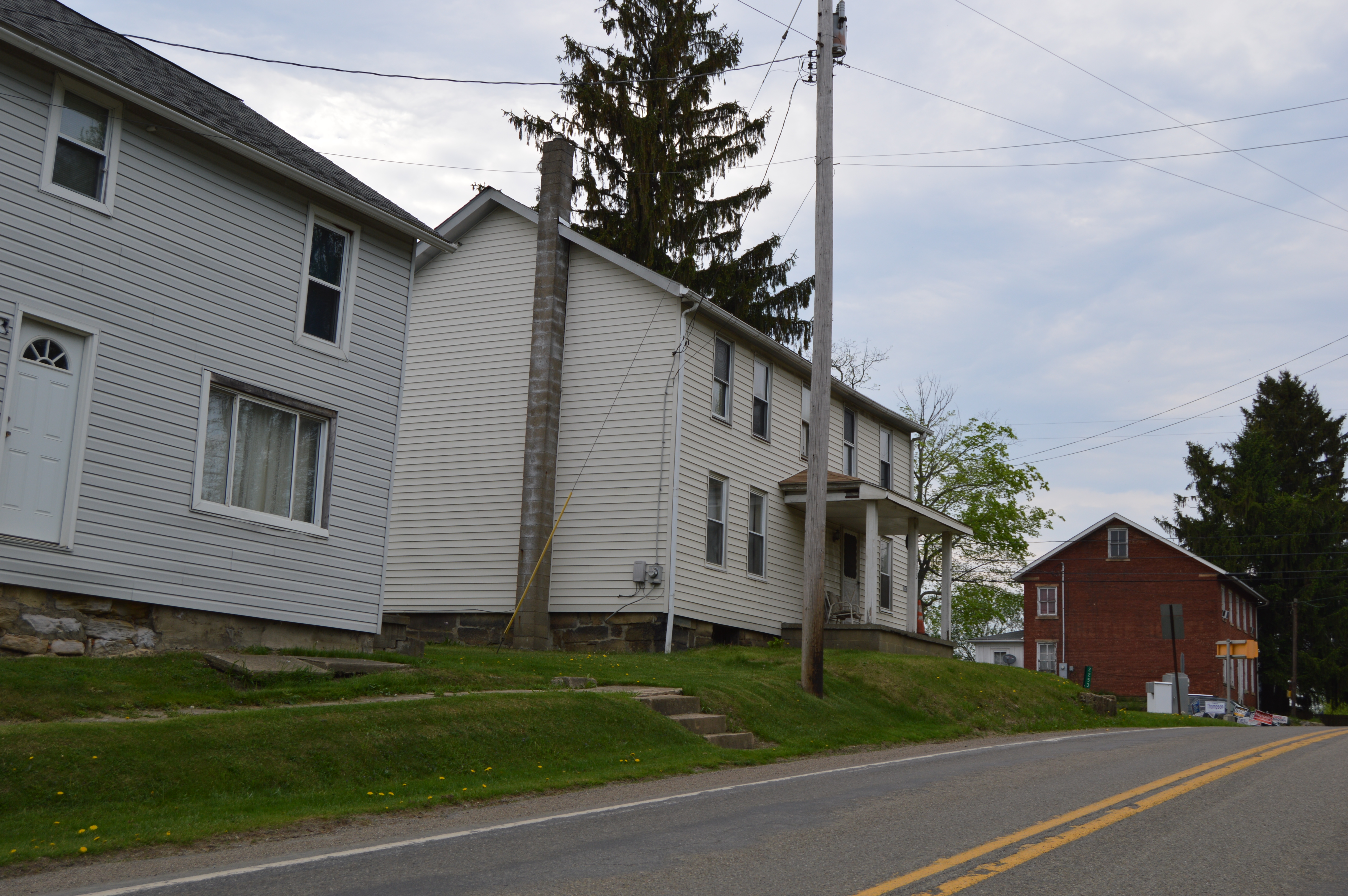 Houses on the western side of Pennsylvania Route 38 at North Washington in Washington Township, Butler County, Pennsylvania, United States.